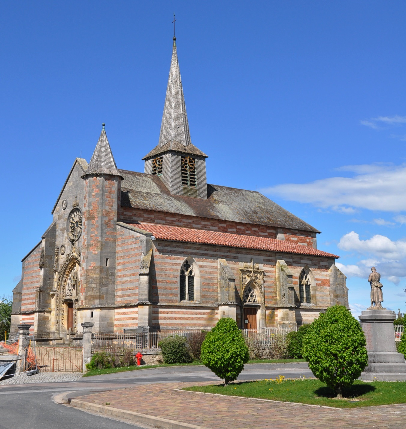 The 15th century Our Lady (Notre Dame) church in Villers-en-Argonne (canton Sainte-Menehould, Marne department, Champagne-Ardenne region, France).